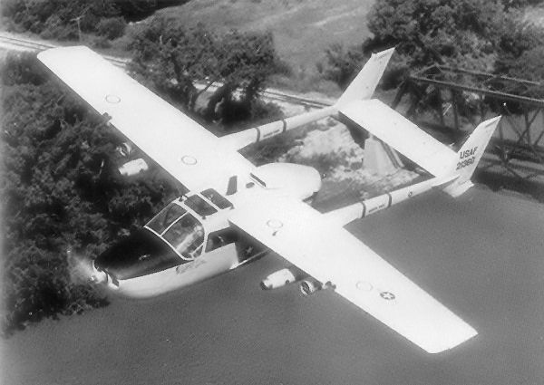 Cessna 02-A Bird Dog of the 21st Tactical Air Support Squadron - Pleiku Air Base, South Vietnam 1968/69 Source: United States Air Force Historical Research Agency - Maxwell AFB, Alabama